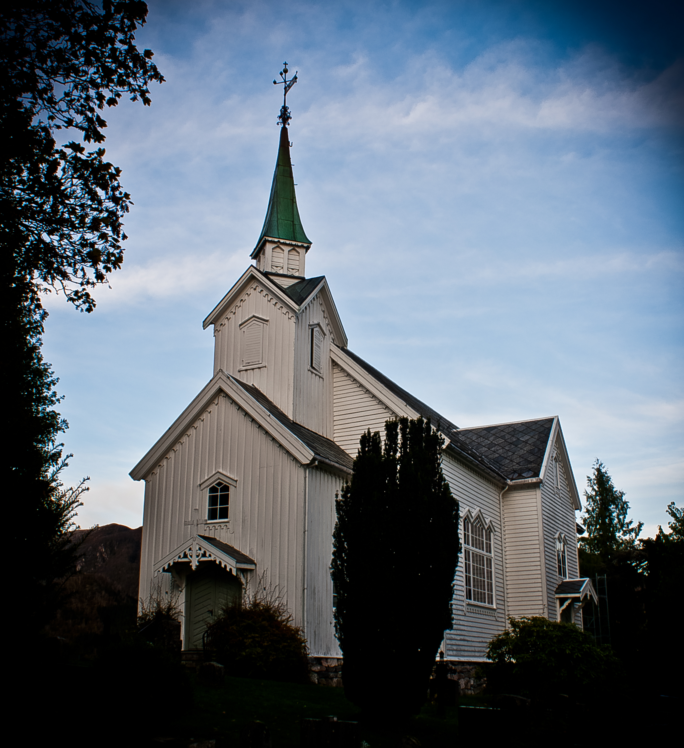 Vatne kyrkje (church) in Haram, Møre og Romsdal, Norway, from 1868.